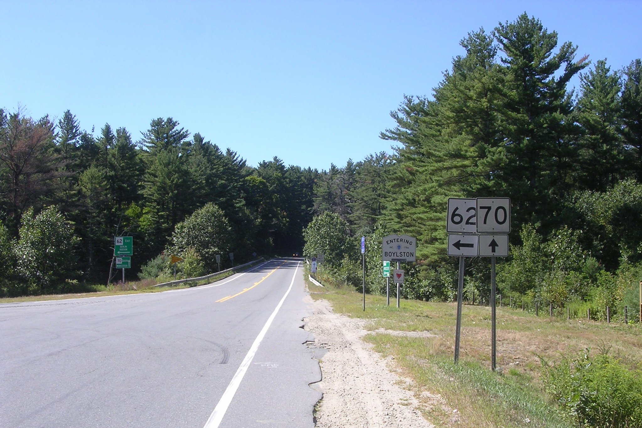 Massachusetts Route 70 southbound entering Boylston Massachusetts